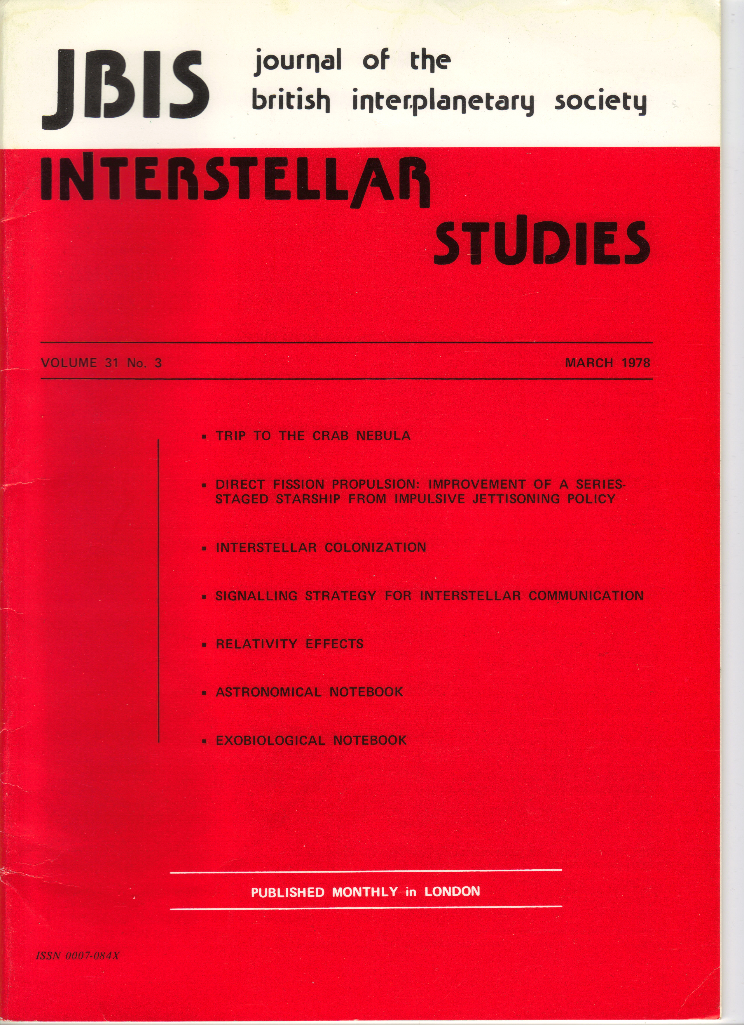 JBIS interstellar red cover issue March 1978